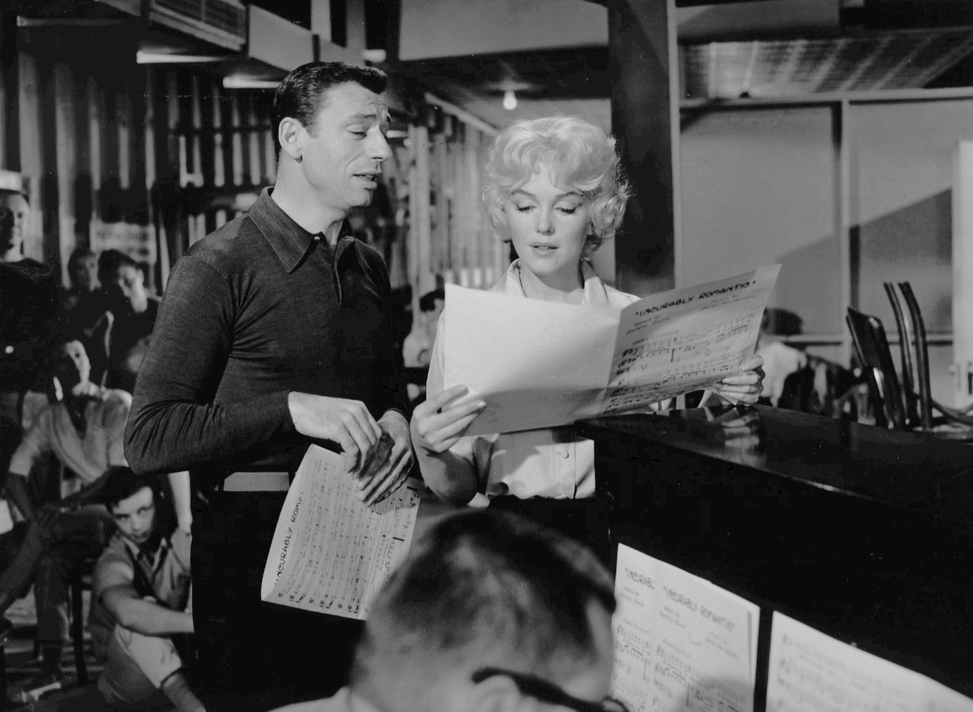 Photo of Yves Montand and Marilyn Monroe from the 1960 film Let's Make Love.